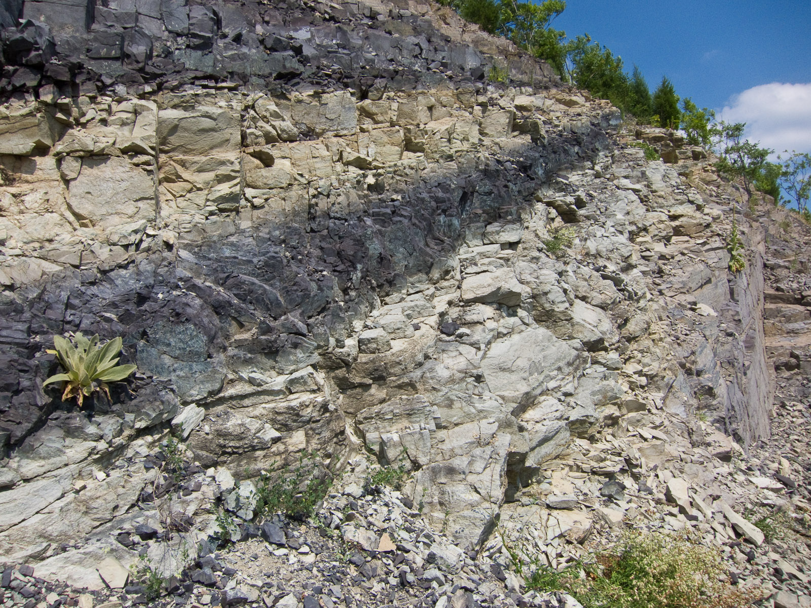 Dulles Greenway, Ashburn